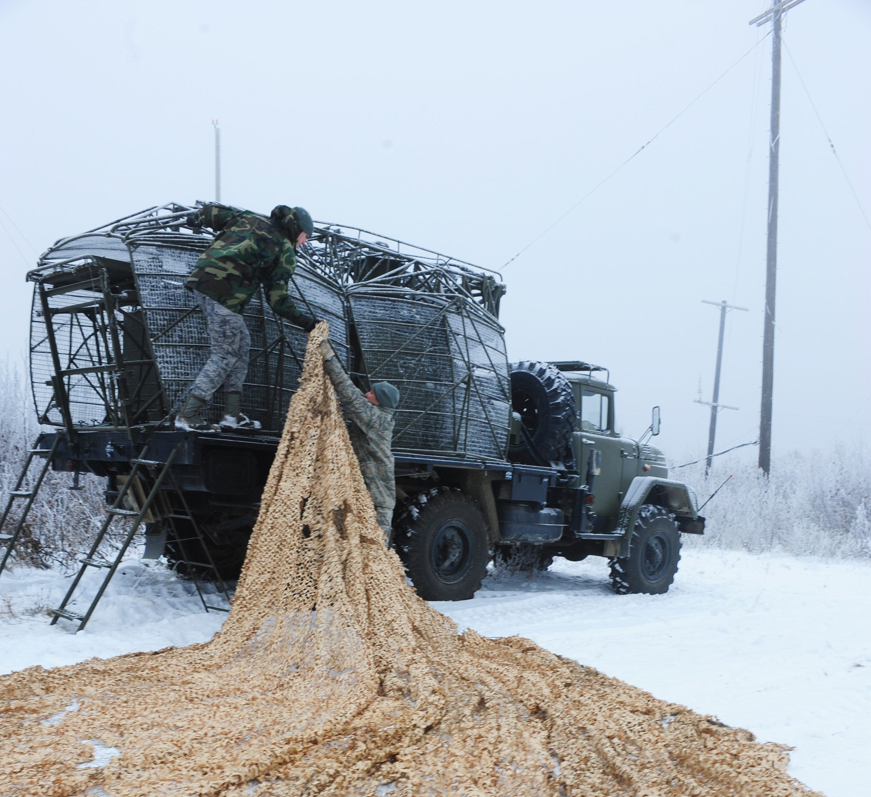 Two US Airmen cover a Russian-made P-15 flat-face radar truck during RED FLAG-Alaska with radar-scattering netting.